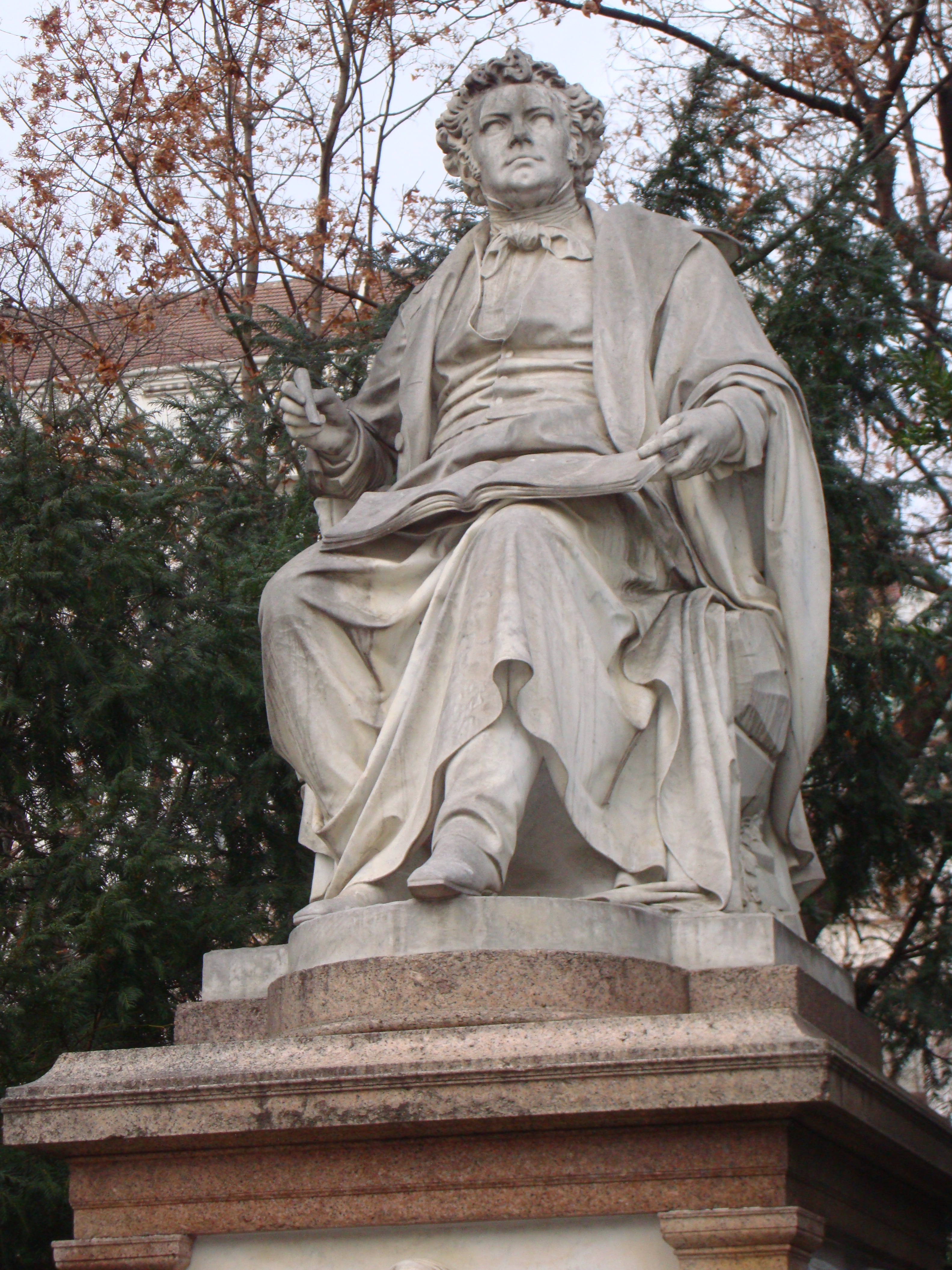 Kundmann Schubert1